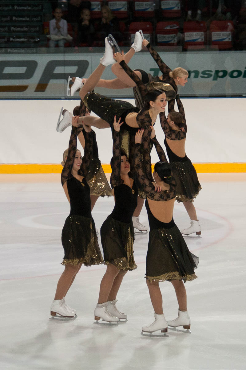 Golden Blades, Tappara, 2nd qualifiers for Finnish Championships 2010, short program, Helsinki